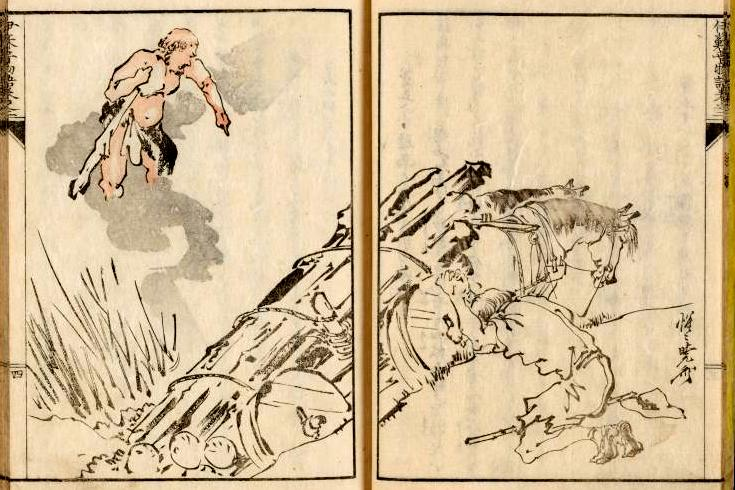 A Japanese woodblock illustration (ehon) illustrating Aesop's fable of Hercules and the Wagoner published in Tsôzoku isho monogatari (1872-5)